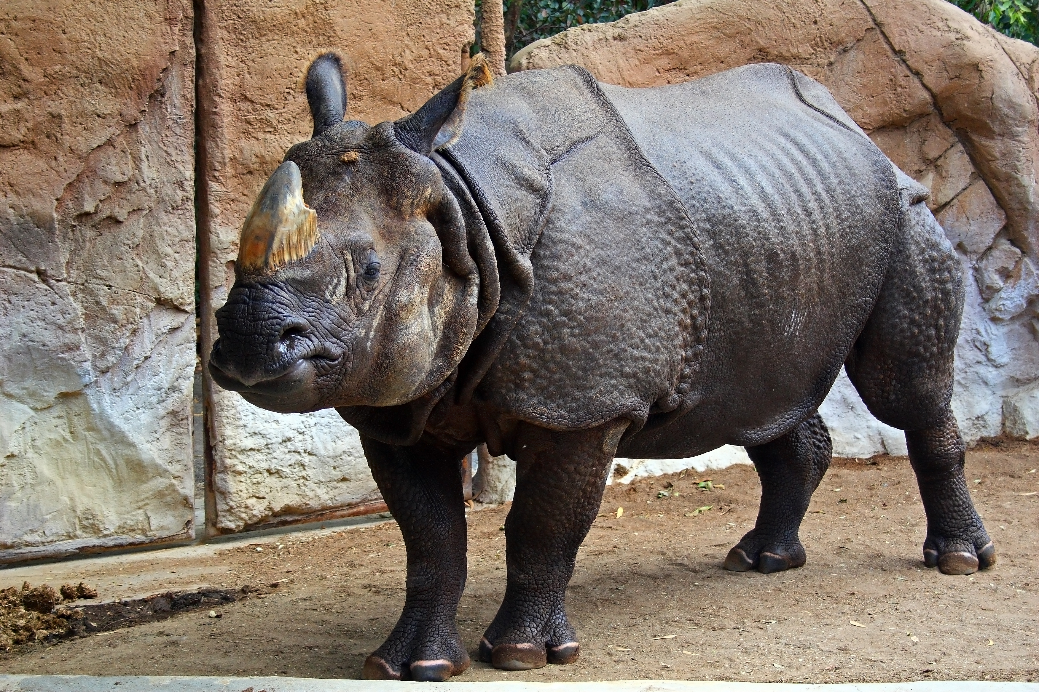 The one horned Indian Rhino at San Diego Zoo, California, USA